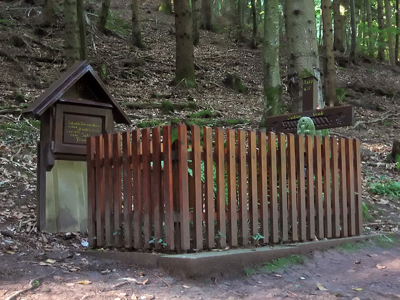 A photograph of the Jaekle-Grave.